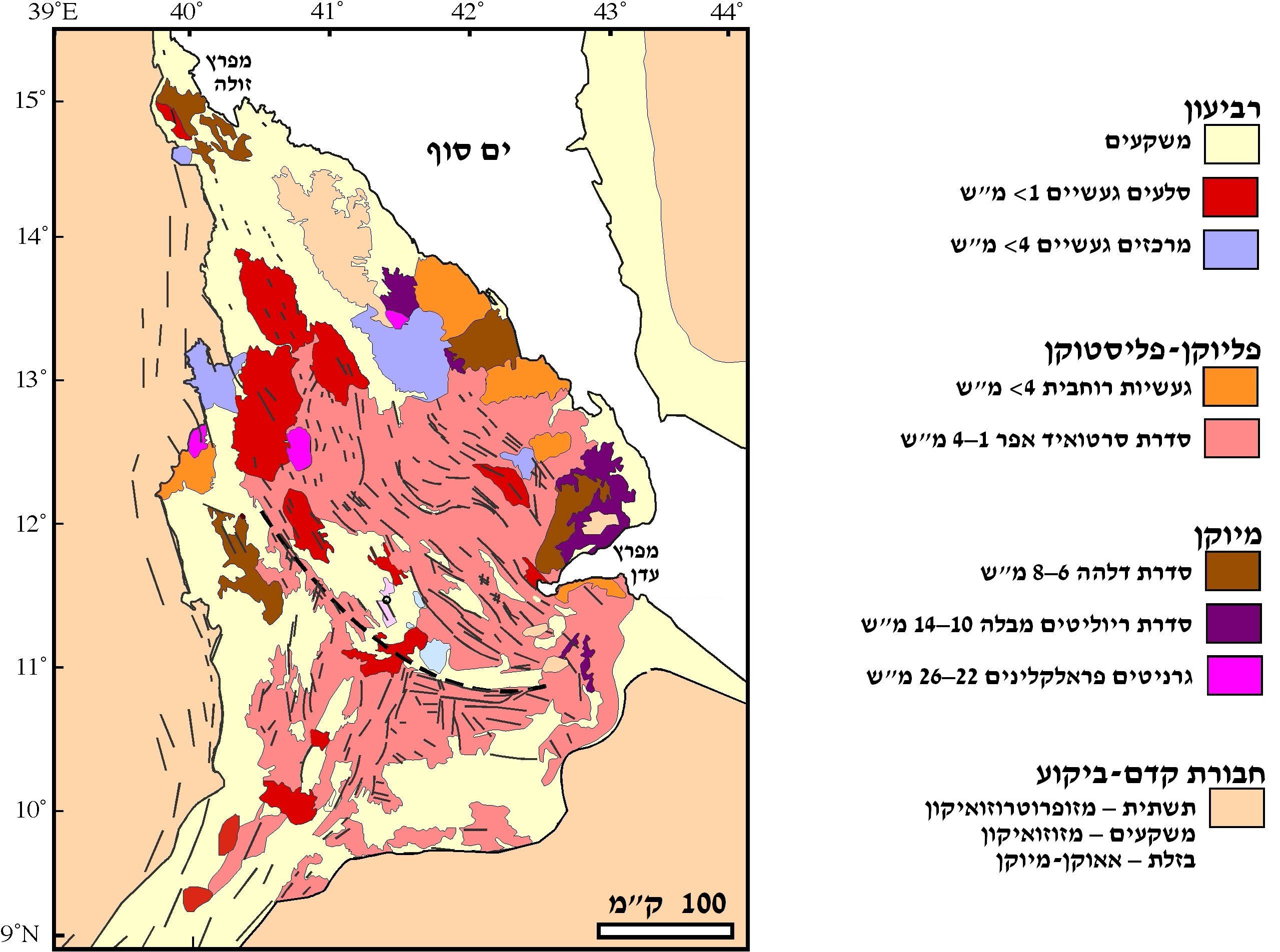 Simplified geologic map of the Afar Depression. from *Created by User:Zyzzy after Beyene and Abdelsalam (2005). *Released under the Creative Commons Attribution 2.0 license.